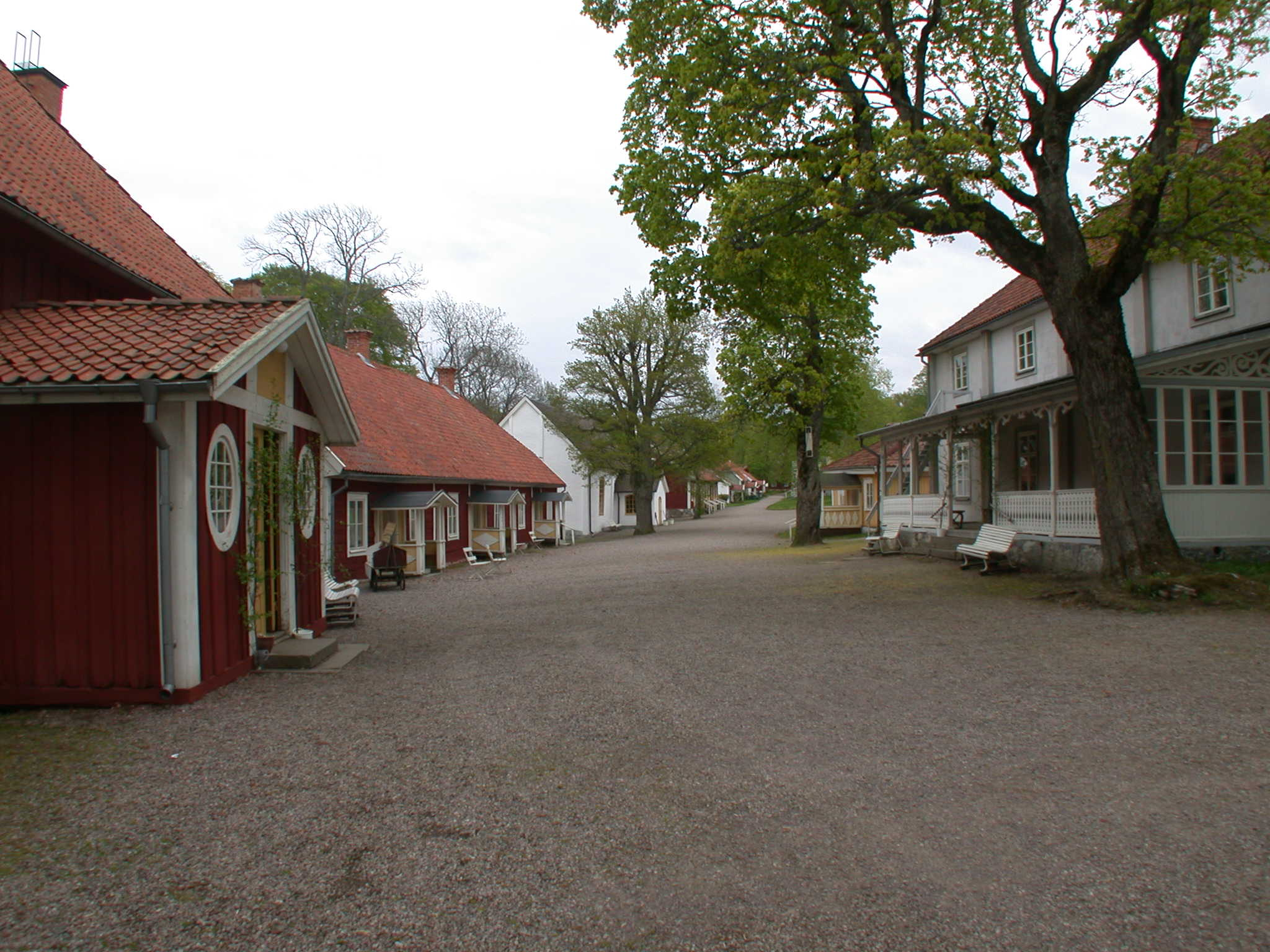 The spa village promenade, Medevi spa, Sweden.